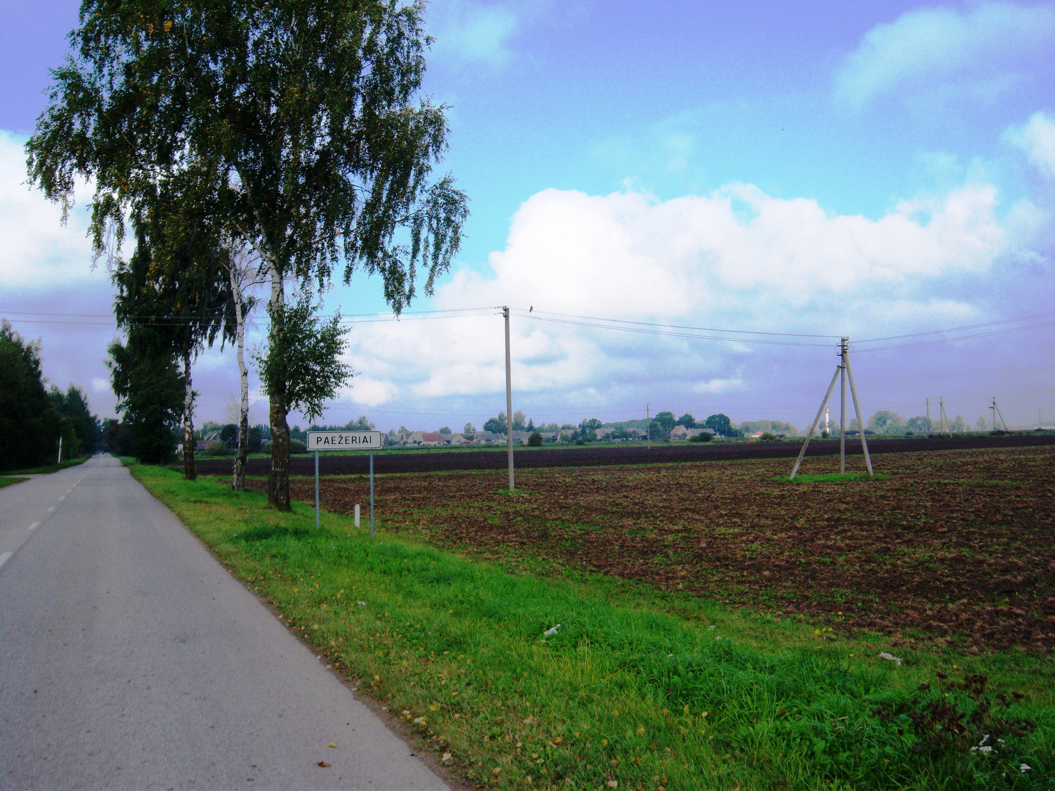 Paežeriai (Pilviškiai Eldership), Vilkaviškis District, Lithuania